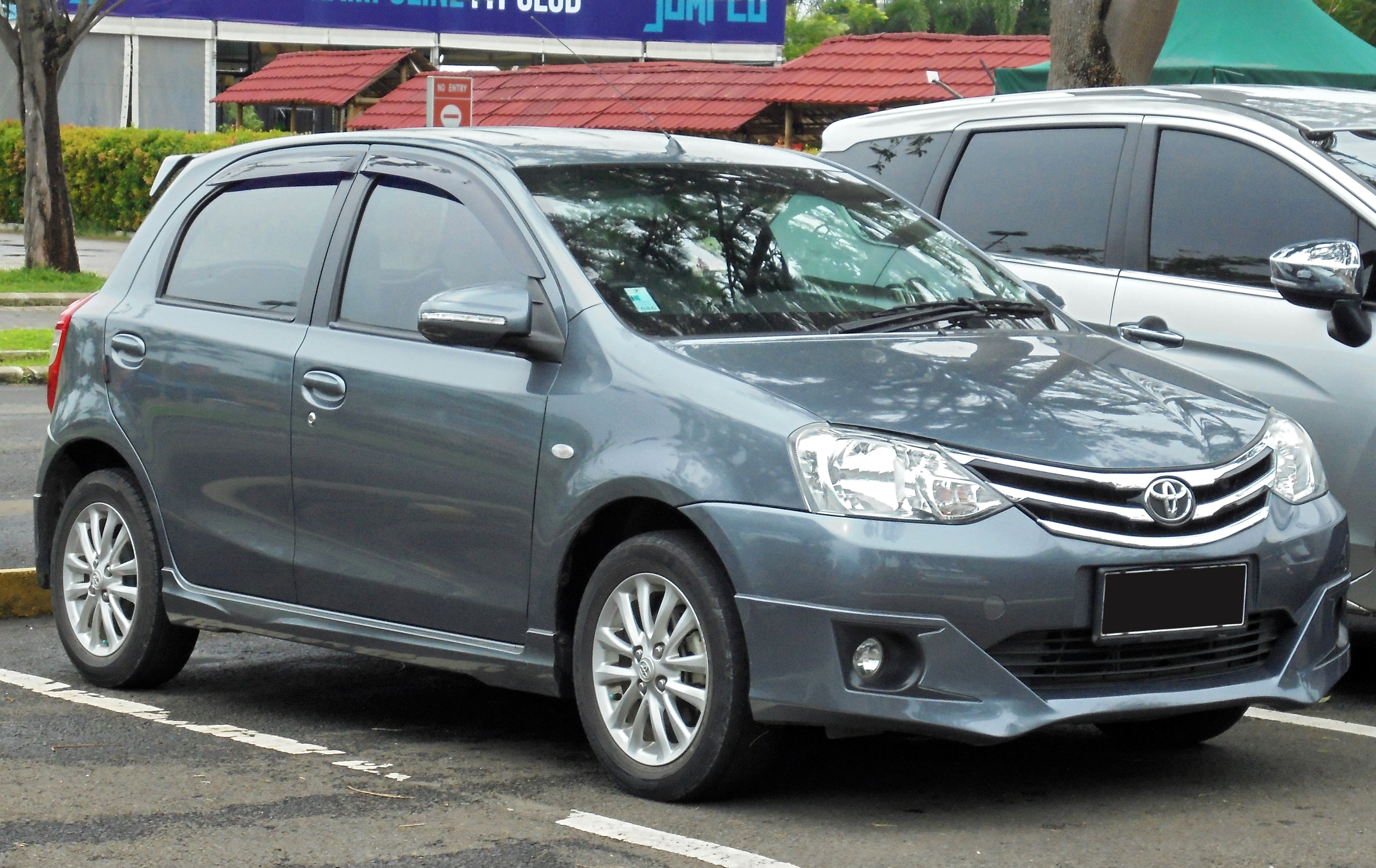 2014 Toyota Etios Valco 1.2 G hatchback (NGK10R) photographed in South Tangerang, Banten, Indonesia.